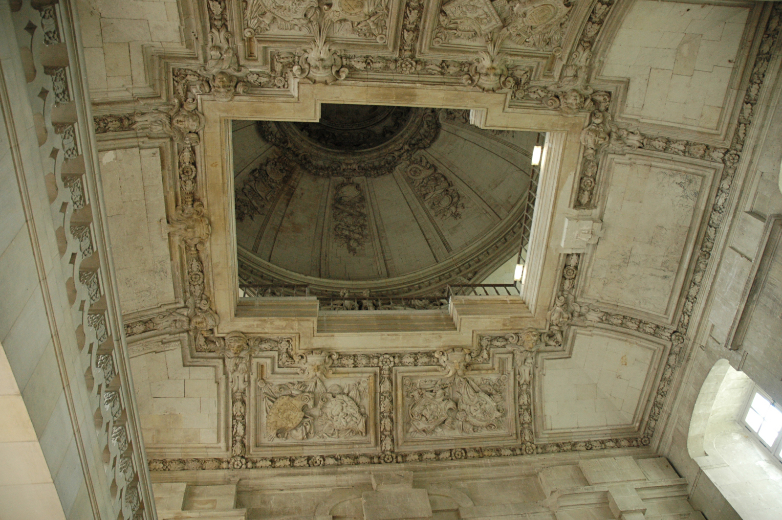 Château de Blois, dome of the staircase in the Gaston d'Orléans wing